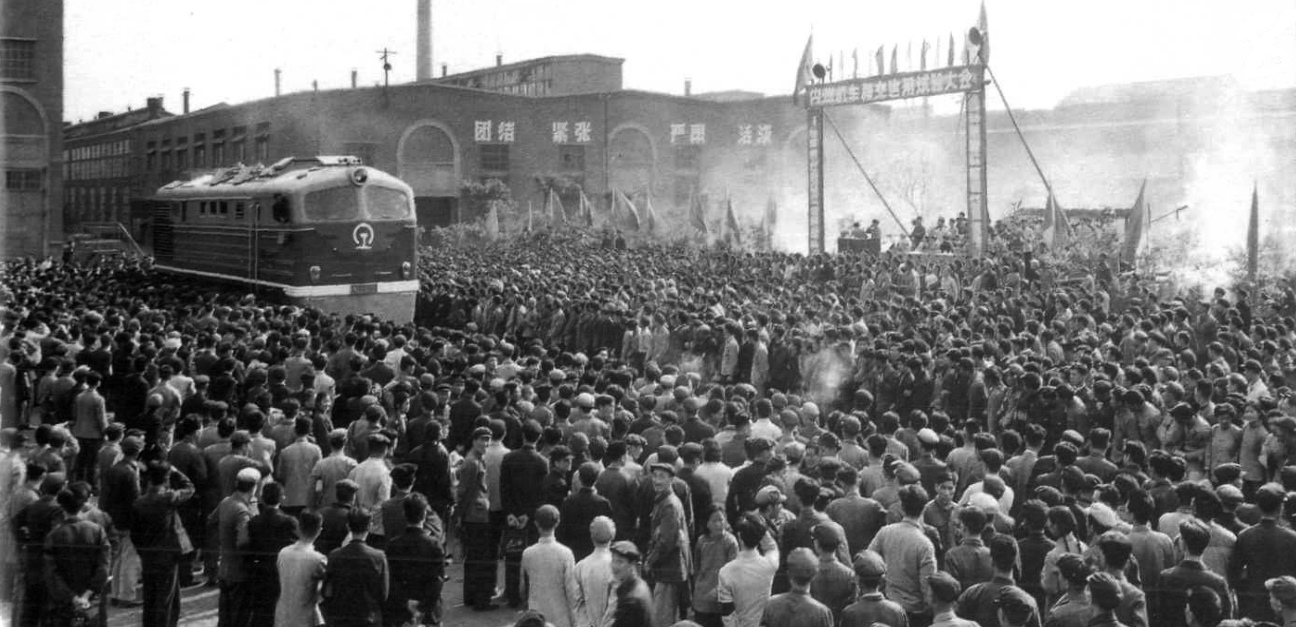 ND0003 diesel locomotive rolled out in Dalian Locomotive and Rolling Stock Works (May 23rd, 1964)